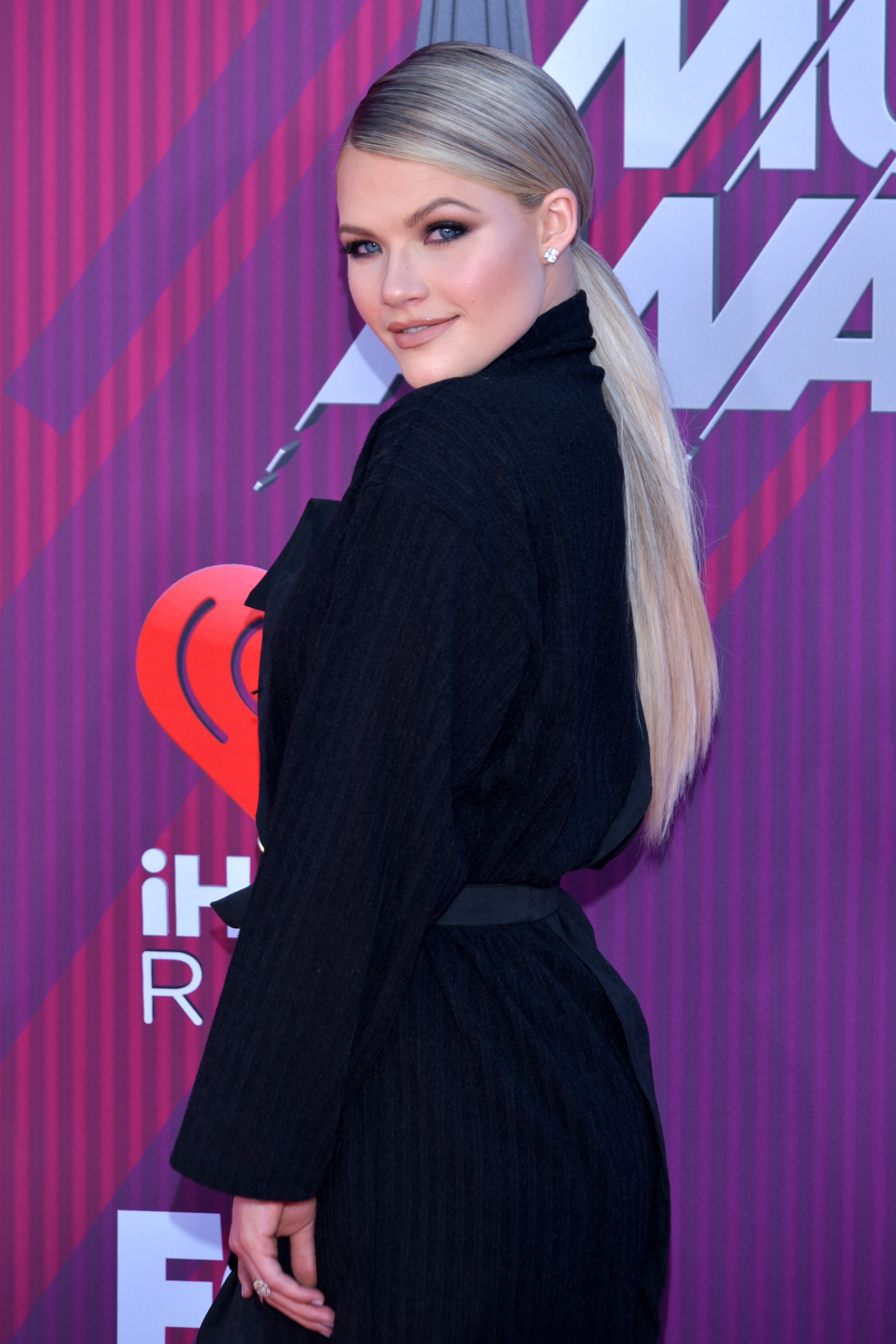 Witney Carson at the 2019 iHeartRadio Music Awards in Los Angeles California on March 14, 2019 - Photo by Glenn Francis of